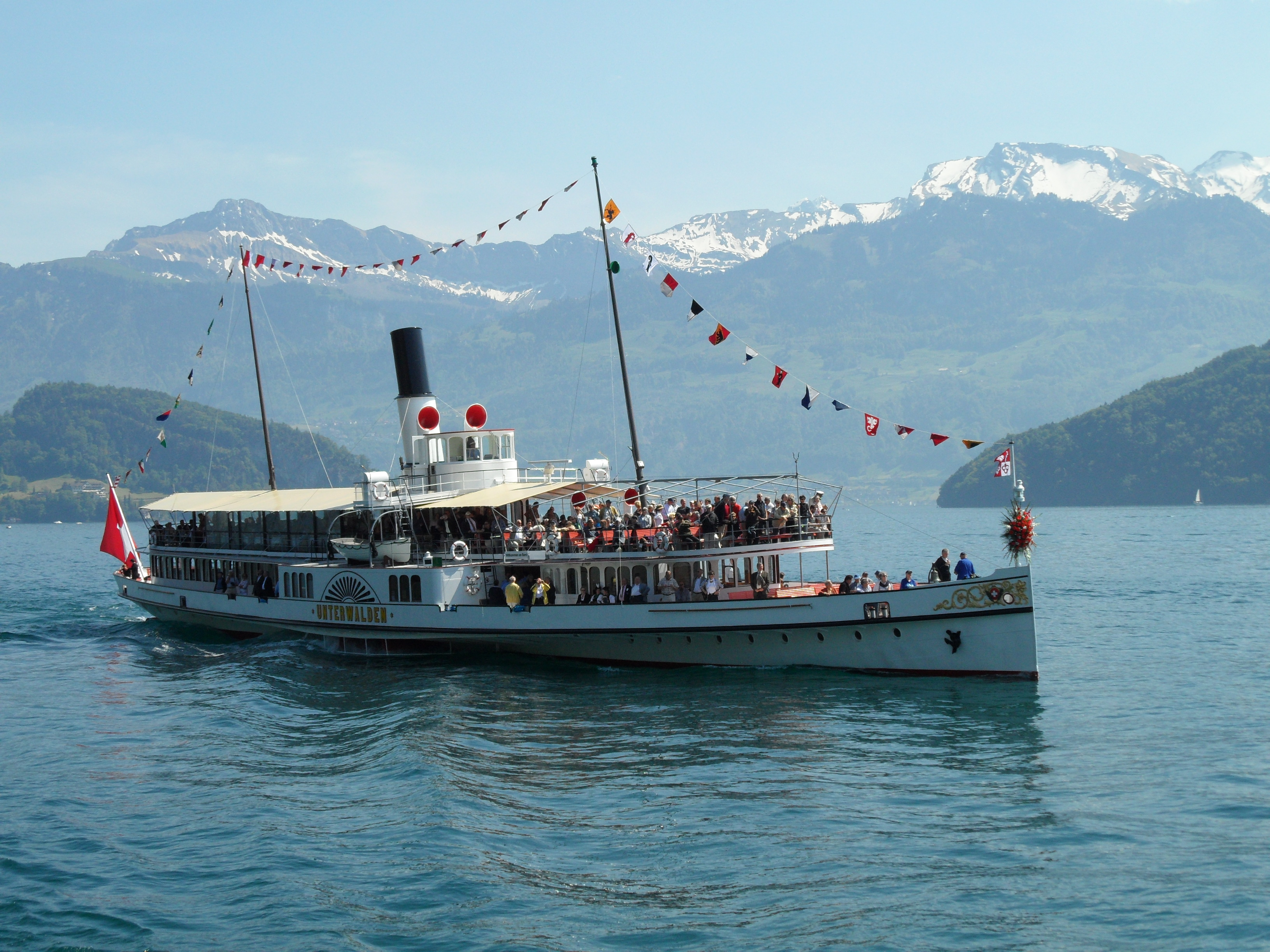 Lake Lucerne paddle steamer "Unterwalden" at the "steamer parade" celebrating her comprehensive restoration and re-entering service, 7 May 2011.